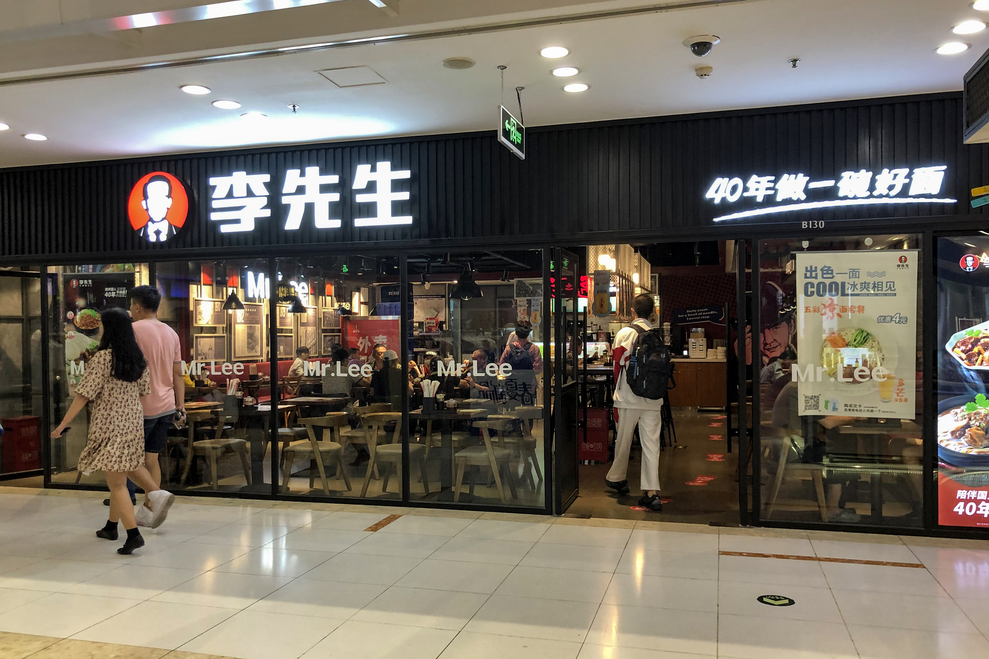 40 years for a bowl of noodles... but just opened a shop here.